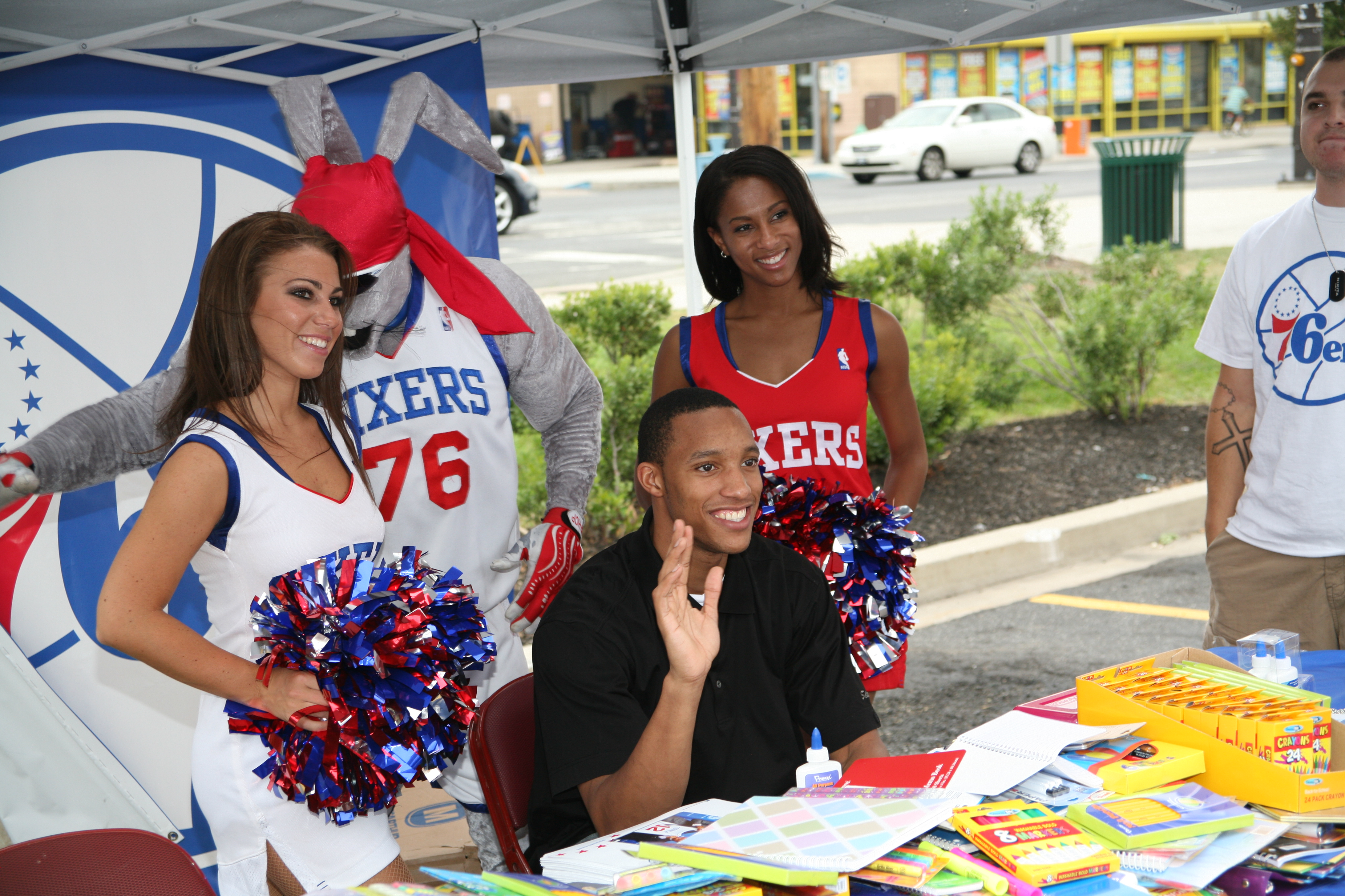 Evan Turner with cheerleaders and team mascot, and intern Mike Consolmagno